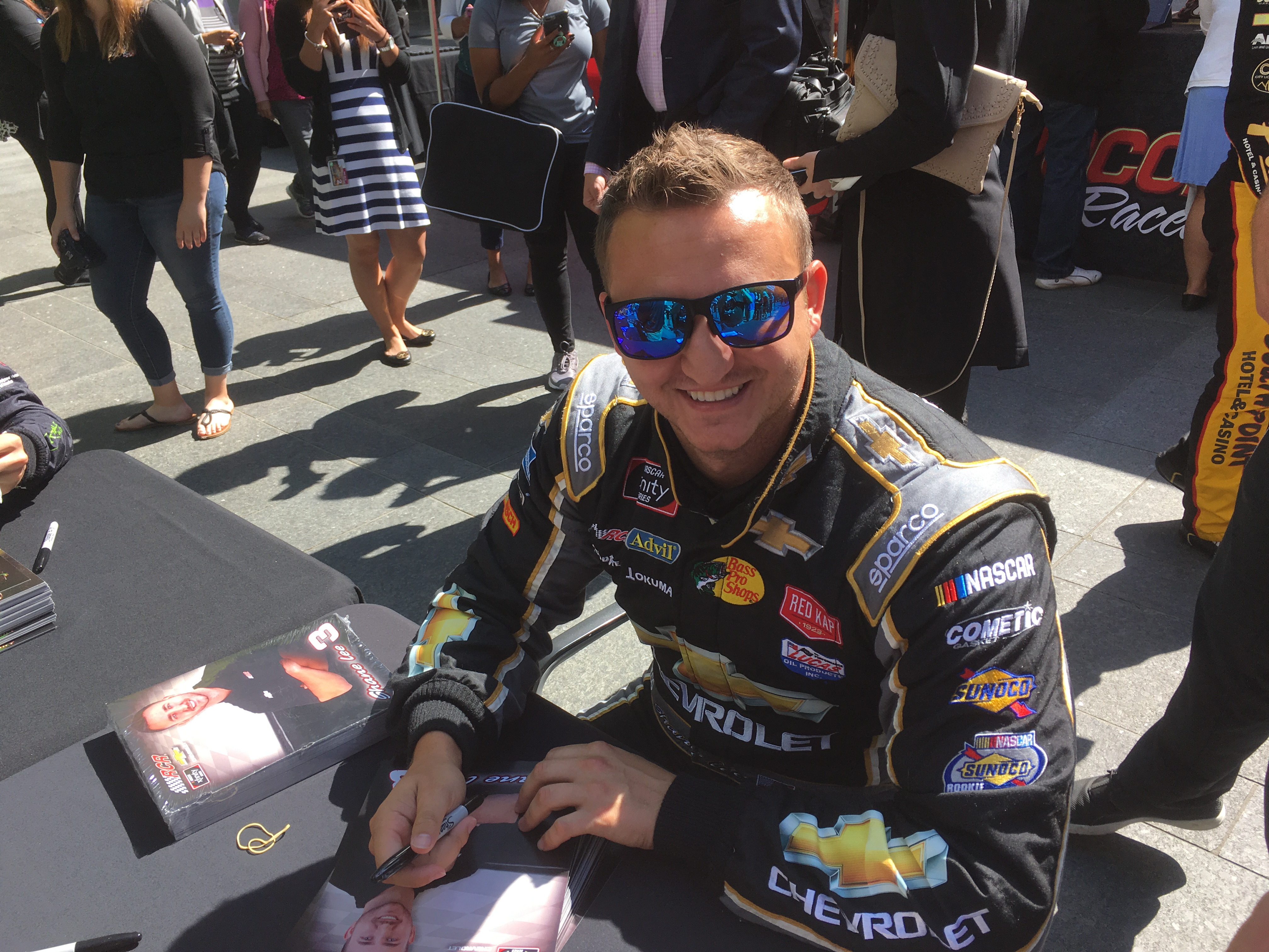 Shane Lee, part-time driver of the #3 for Richard Childress Racing in the NASCAR Xfinity Series, signing autographs at the Xfinity Takeover in Philadelphia, Pennsylvania